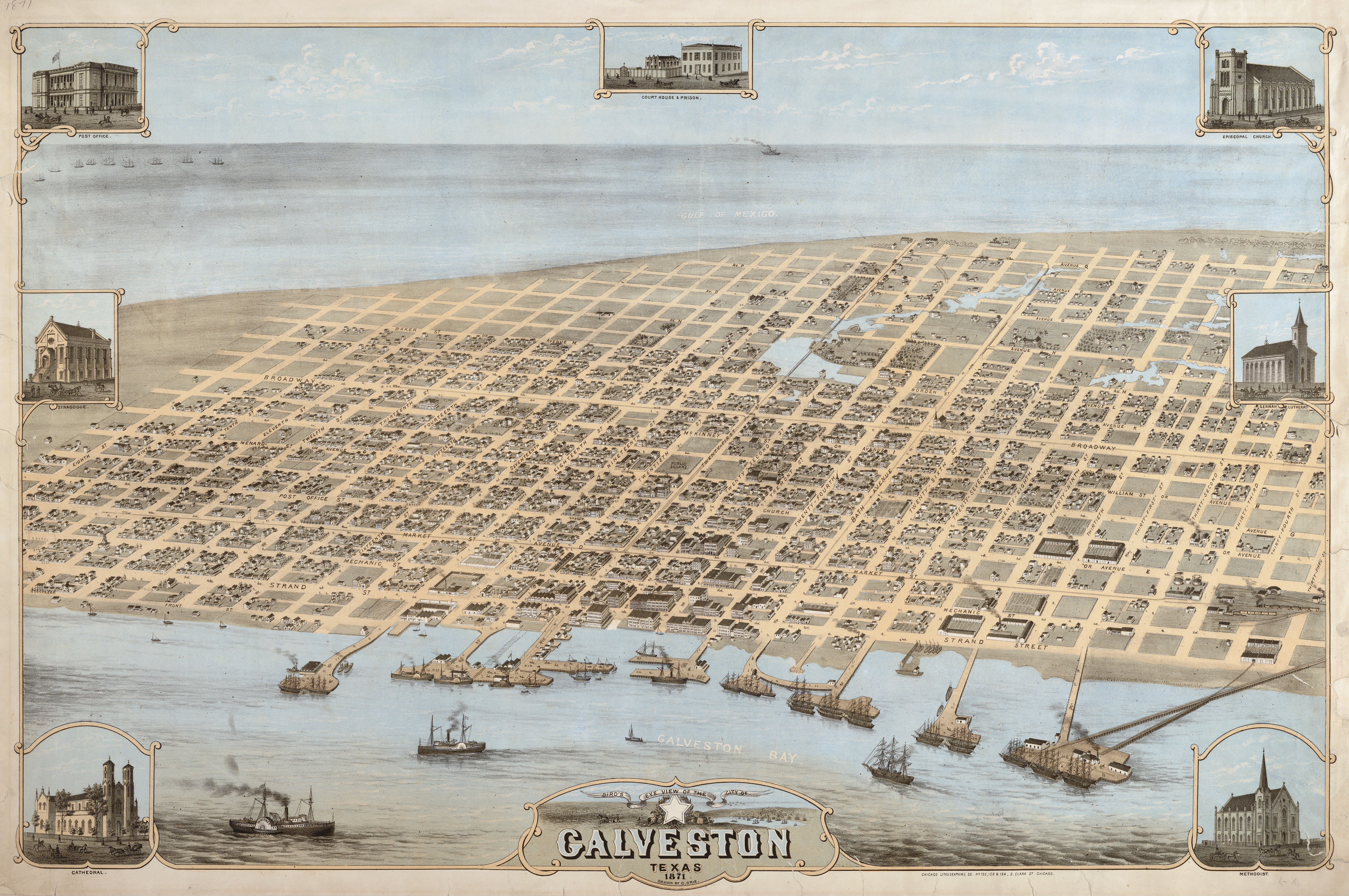 Galveston, Texas in 1871. Bird's Eye View of the City of Galveston Texas, 1871. Toned lithograph, 22.4 x 34.3 in. Printed by Chicago Lithographing Co. 150-54 S. Clark, Chicago, Ill. Center for American History, The University of Texas at Austin. Whitney paddle packet steamer